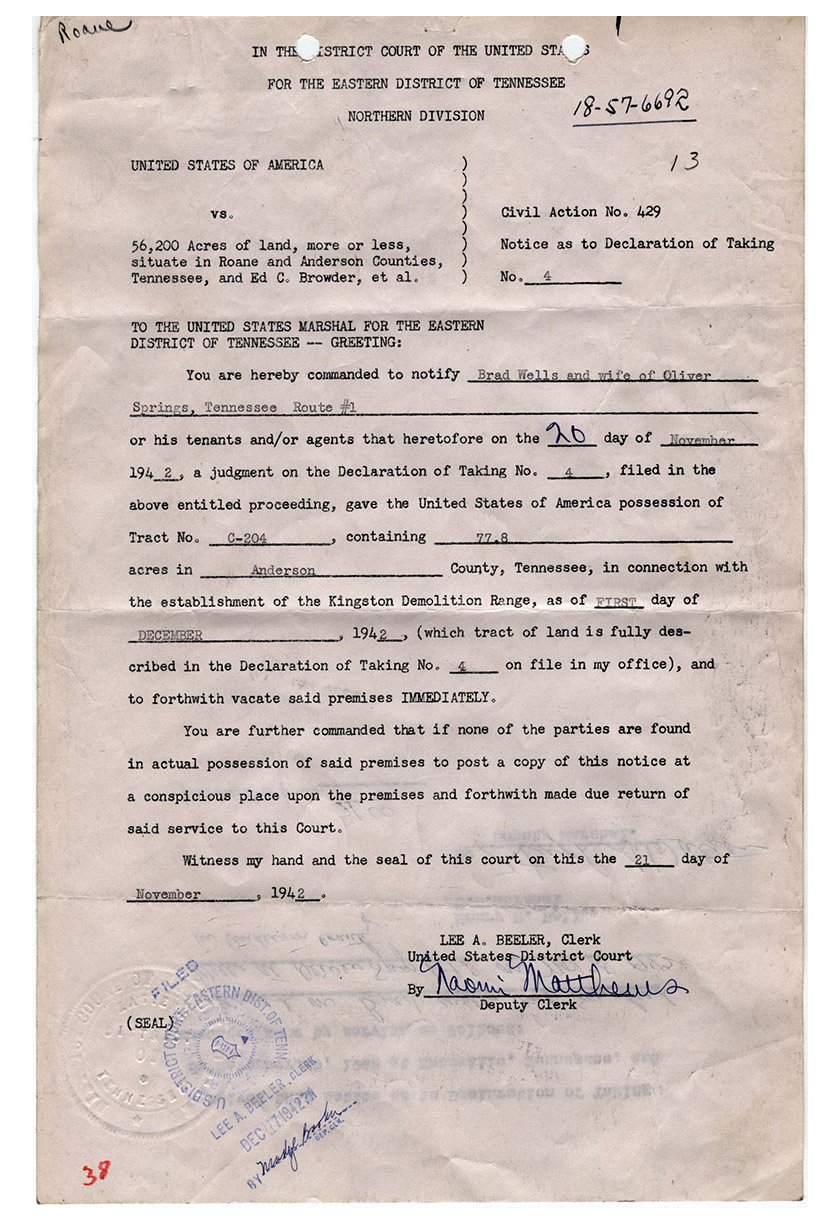 Title Civil Action No. 429 Subject Eminent domain Manhattan Project (U.S.) Description The federal government took possession of over 56,000 acres of land in Anderson & Roane counties in Tennessee in order to construct Oak Ridge. This document is a notice to one landowner that his land is now in the possession of the federal government and he must vacate the premises. Creator Records of District Courts of the United States, Record Group 21 Source Civil Case Files, Knoxville, TN, 1938-1947 Date December 7, 1942 Rights National Archives at Atlanta Format Textual Document Language English Identifier ARC Identifier 1078562